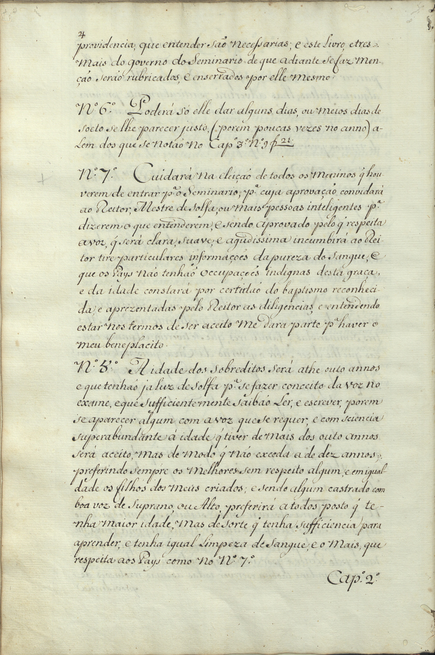 Statutes of the Royal Patriarchal Music Seminary of Lisbon, Chapter 1, p. 4. From the collection of the Biblioteca Nacional de Portugal.